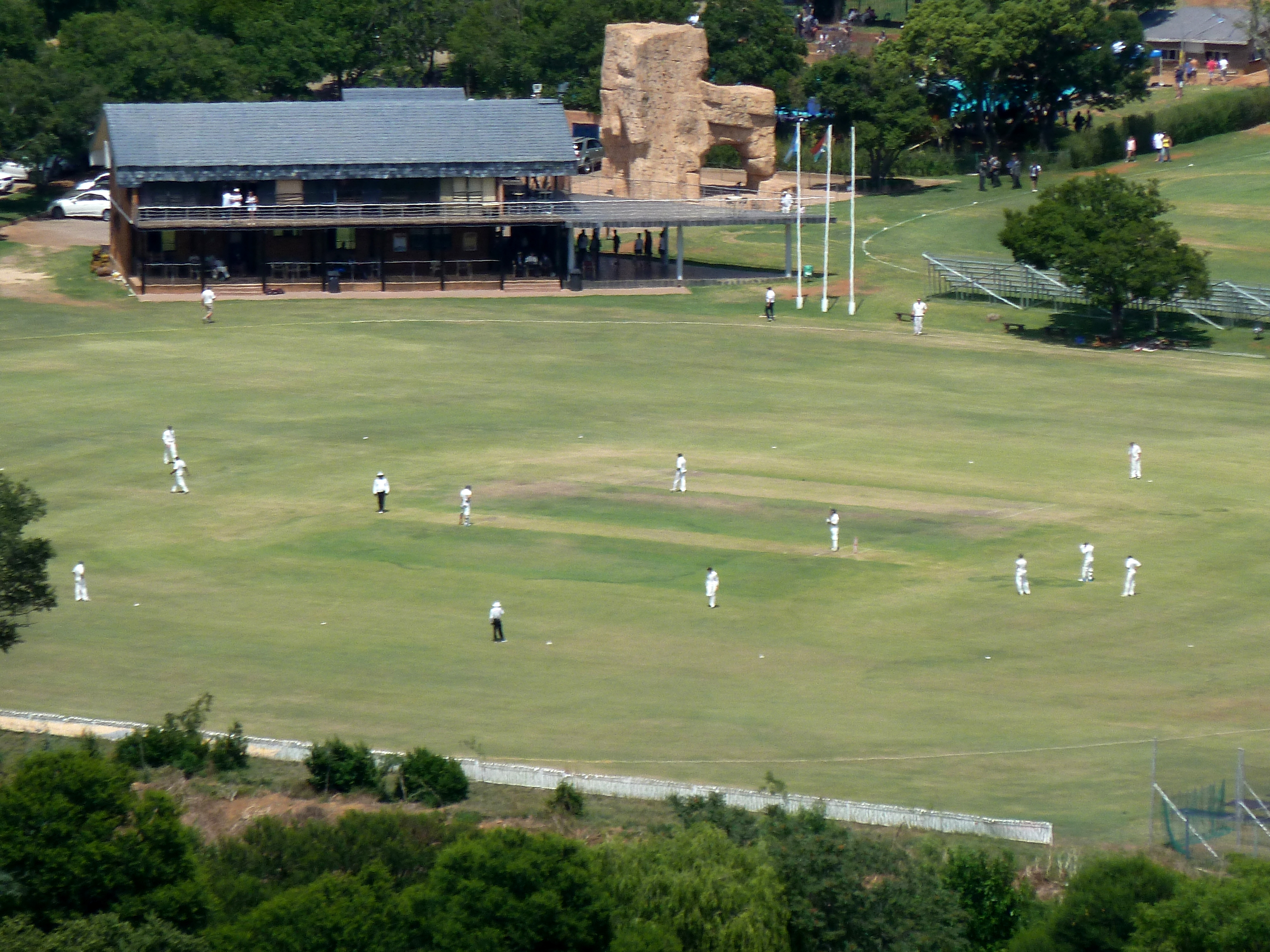 Cricket match at St. Alban's College in Lynnwood Glen, Pretoria